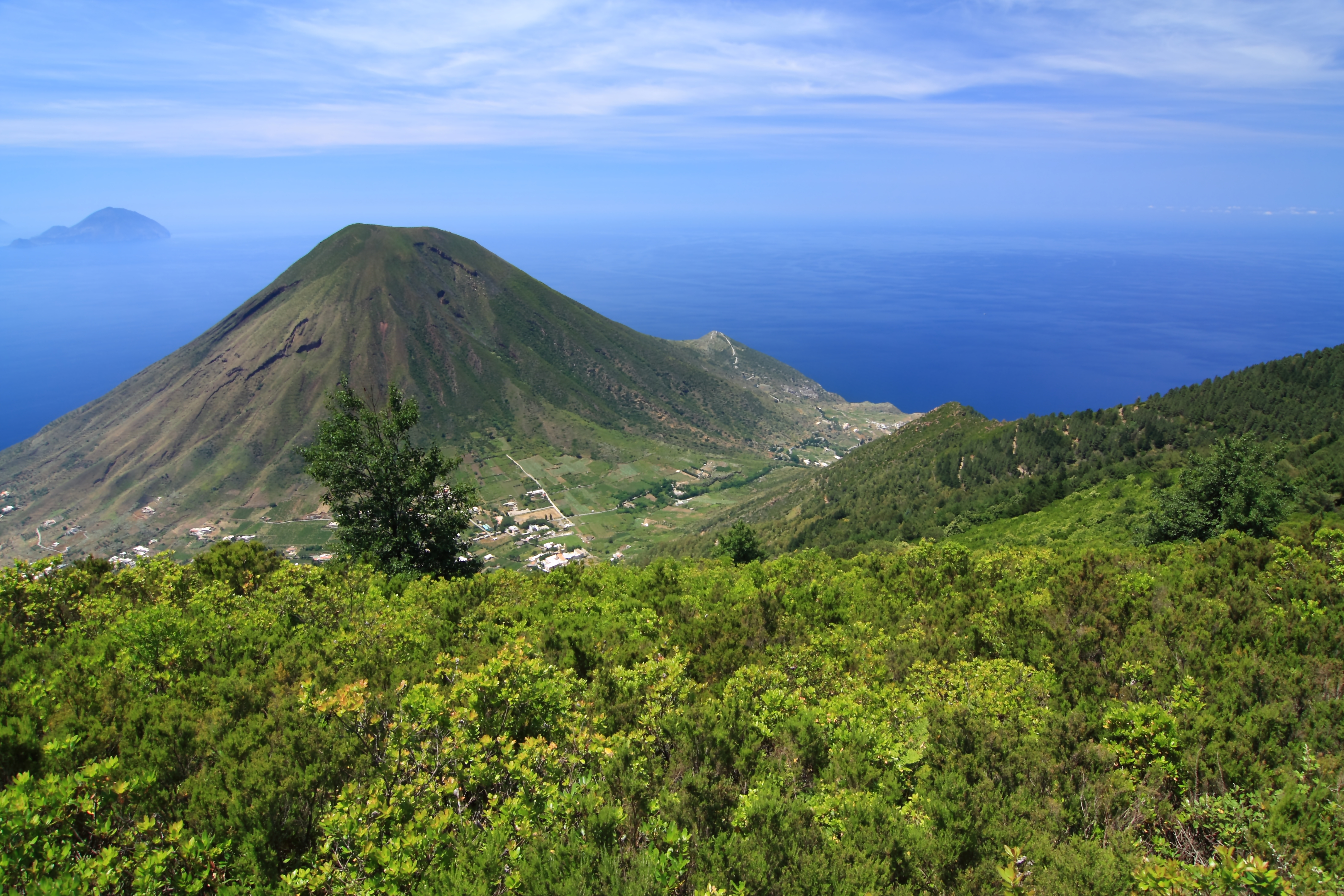 Monte dei Porri volcano seen from Monte Fossa delle Felci, on Salina island, one of the Aeolian Islands of Italy.